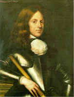 Thomas Colepeper, 2nd Baron Colepeper (1635-1689)